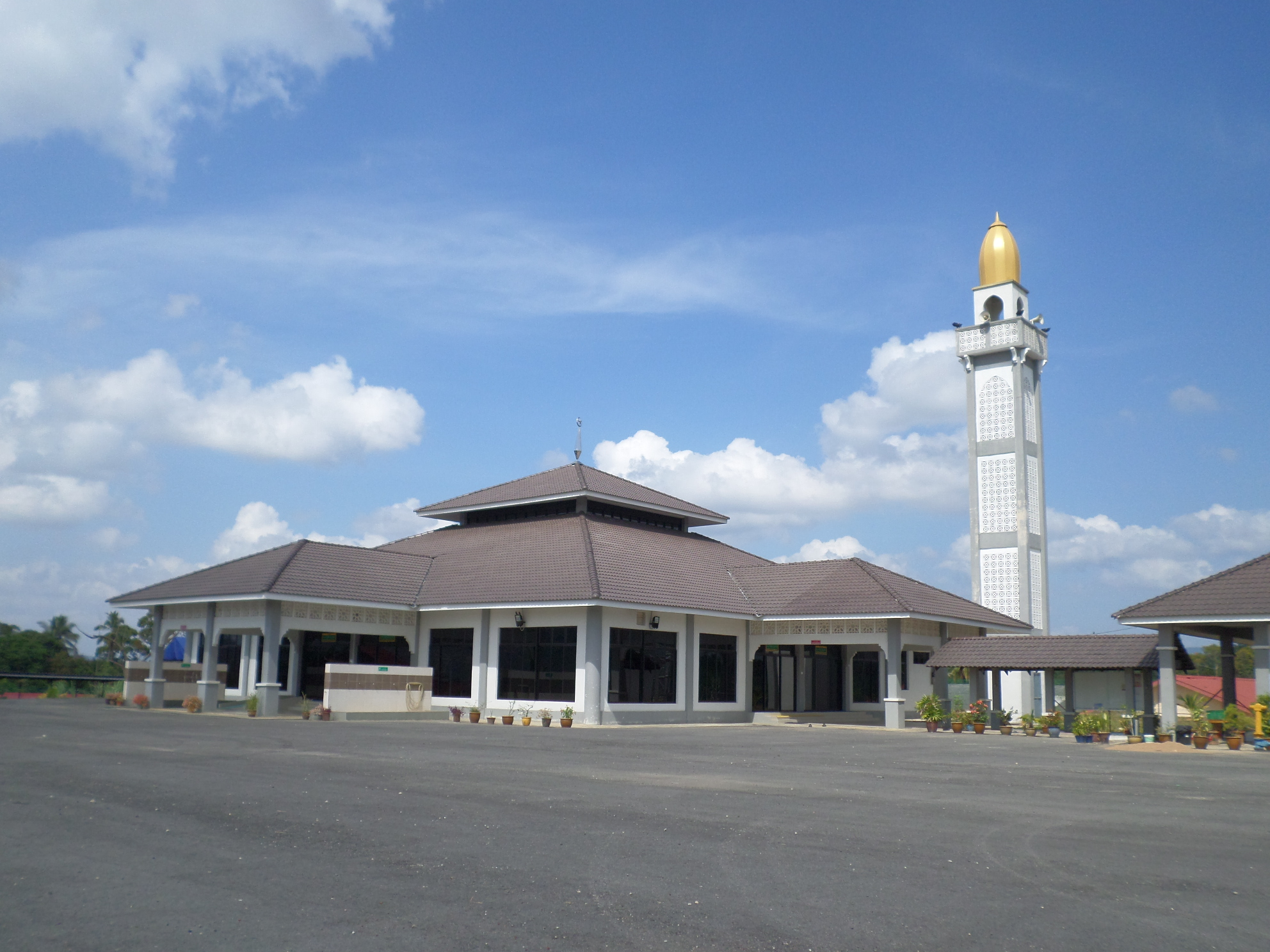 New Zealand Village Mosque, FELDA New Zealand, Maran, Pahang, Malaysia